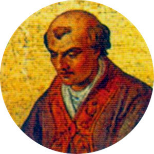 Portait of Pope Nicholas II in the Basilica of Saint Paul Outside the Walls, Rome